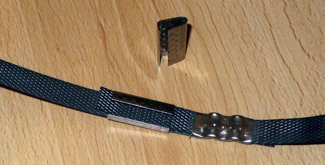 Strapping with strapping seals before, during, and after crimping